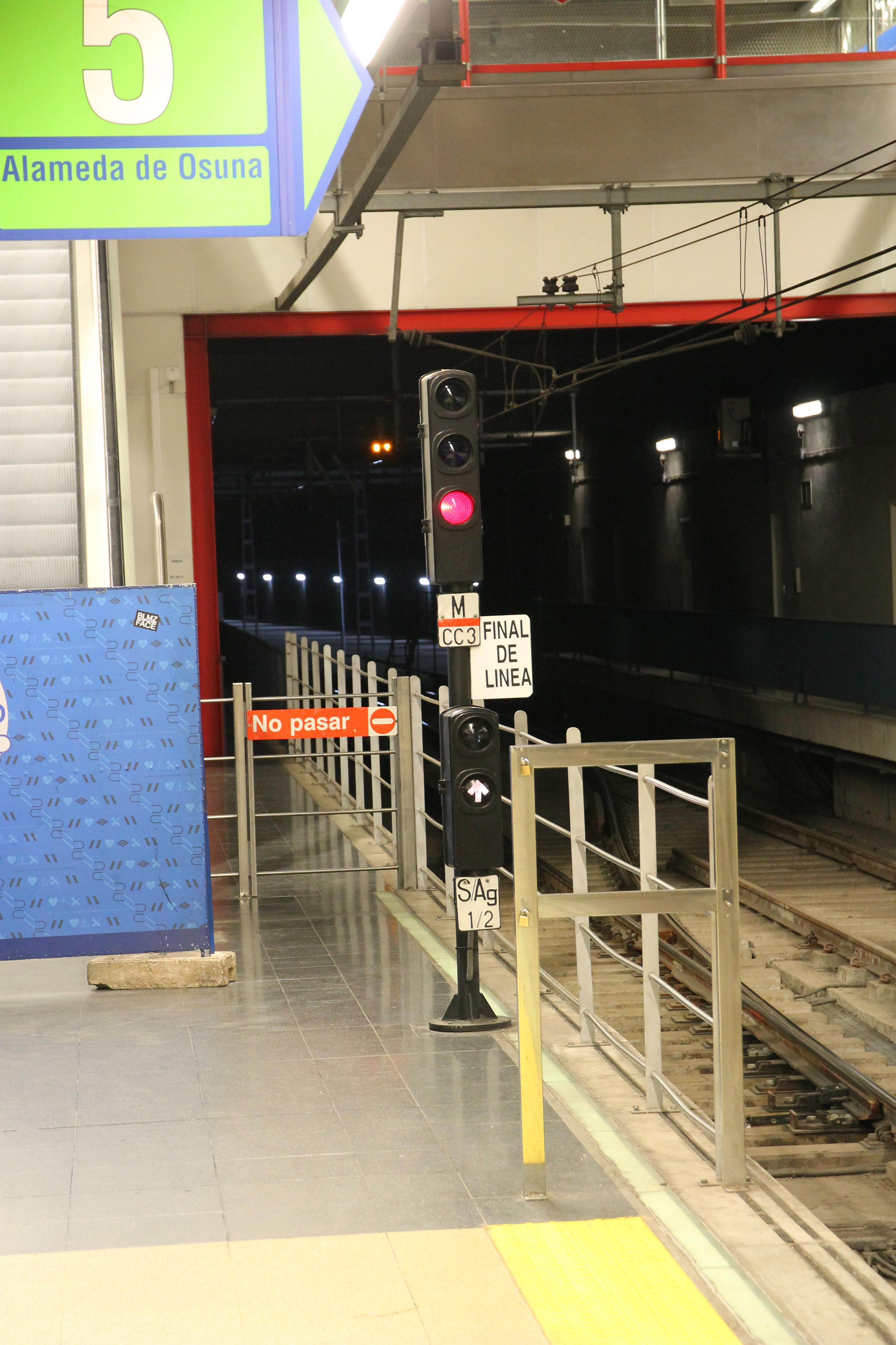 Casa de Campo metro station, Madrid